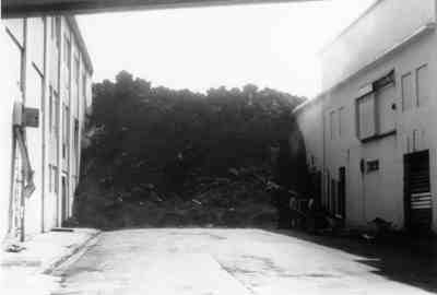 Lava flow between two fish-processing factories, Heimaey, Iceland. (The file name is a bit misleading, since the flow had stopped advancing months before the photo was taken.) Original caption (from a USGS publication, hence public domain): "Figure 22. View looking south-southeast of the late March surge of lava into the town of Vestmannaeyjar that stopped at the back of and in the street between the two fish-processing plants, Fiskiðan hf. (left) and Ísfélag Vestmannaeyja hf. (right), in late March 1973. Water-cooling operations were concentrated along the advancing edge of the lavas until the forward motion of the lavas was halted. Photograph tacken by Richard S. Williams, Jr., U.S. Geological Survey, on 23 July 1973. A photograph taken a year later (July 1974) would show the lava flow completely removed and the street restored to use."